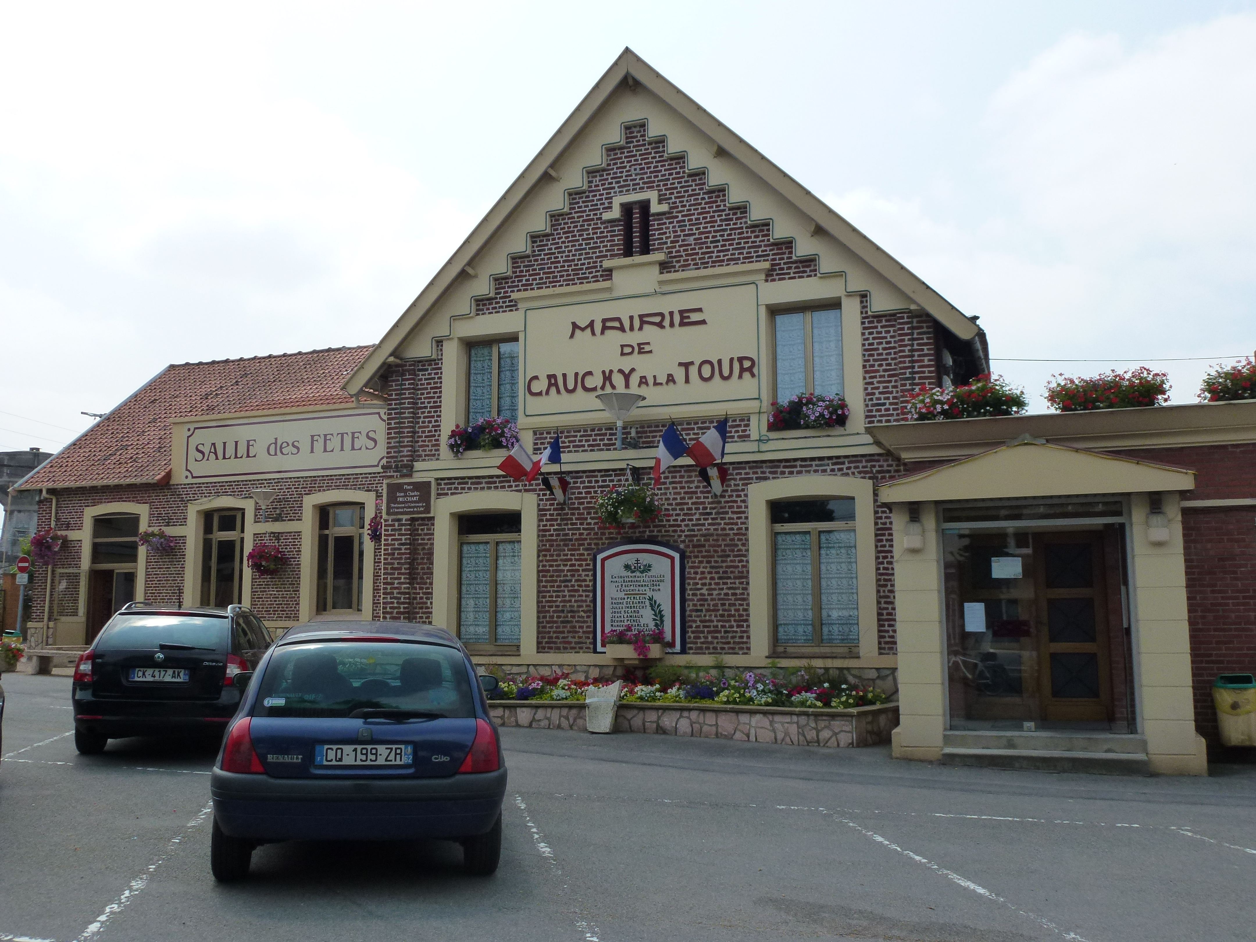 Cauchy-à-la-Tour (Pas-de-Calais, Fr) mairie et salle des fêtes